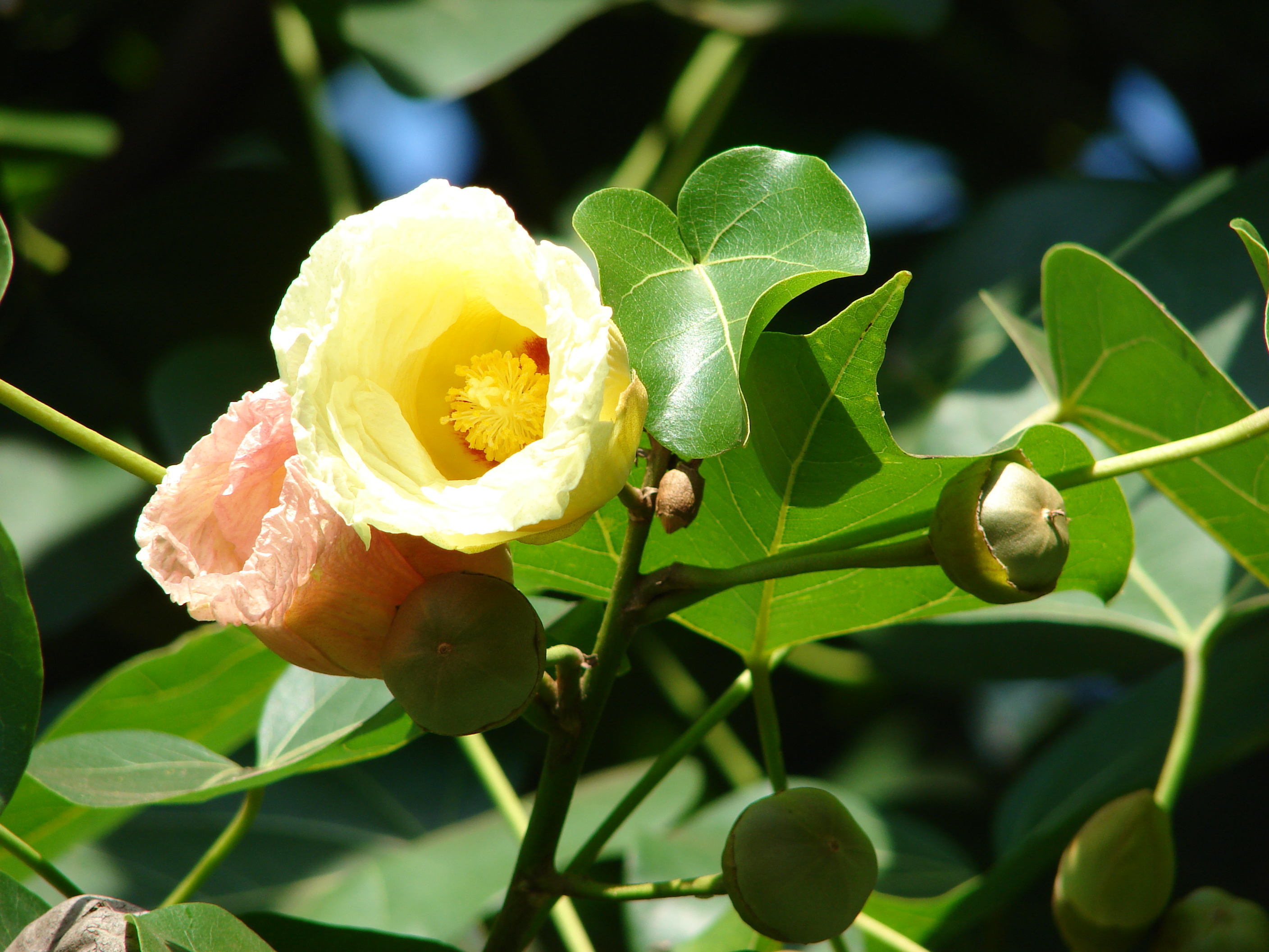 Thespesia populnea (flowers fruit and leaves). Location: Maui, palauea